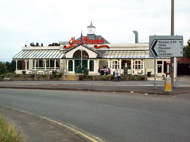 Harry Ramsden's at White Cross. World famous Fish & Chip shop, established on this site in 1928.